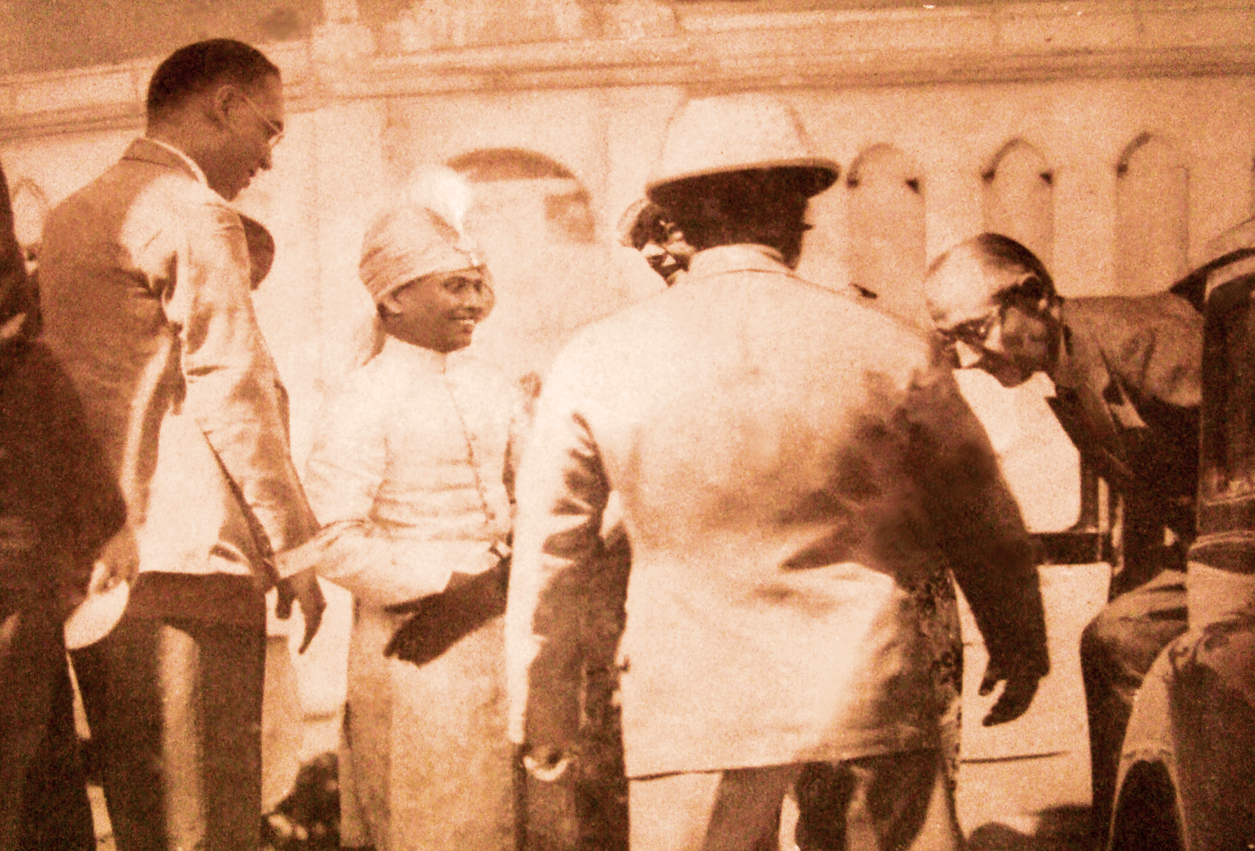 The governor of Bengal,Sir John Arthur Herbert visits Jhargram Raj